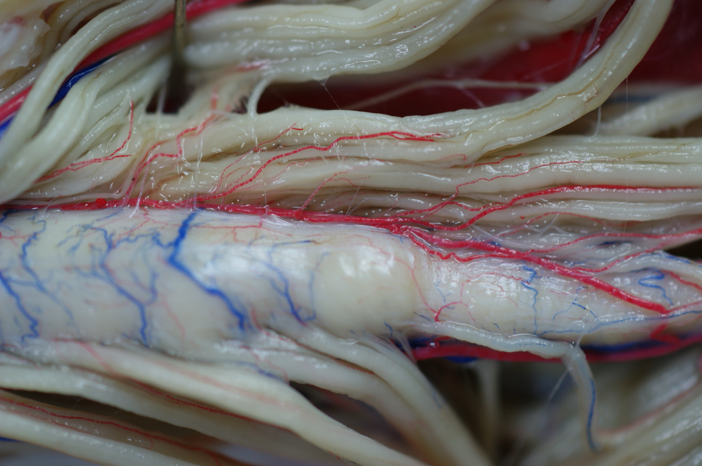 Anatomy of the Great Posterior Radiculomedullary Artery as seen in a posterior view of anatomic specimen of spinal cord